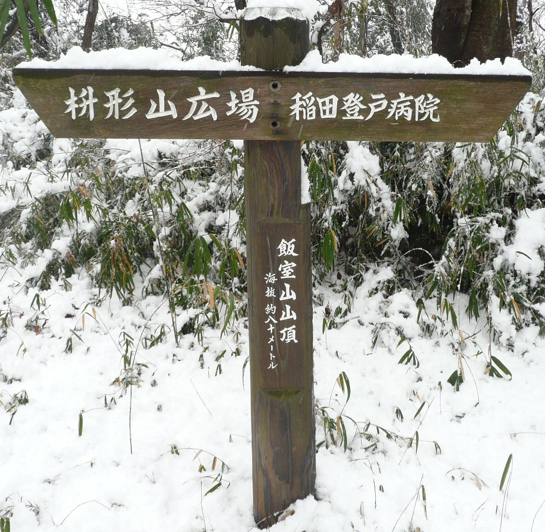 飯室山の交通標識。飯室山の海抜(標高)も書いてあり、飯室山の頂上だということが分かる。 The traffic sign of the Iimuto Mt. This beacon says 「Iimuro Mountain is 2,700 meters above sea level」 and understands that it is the top of the mountain